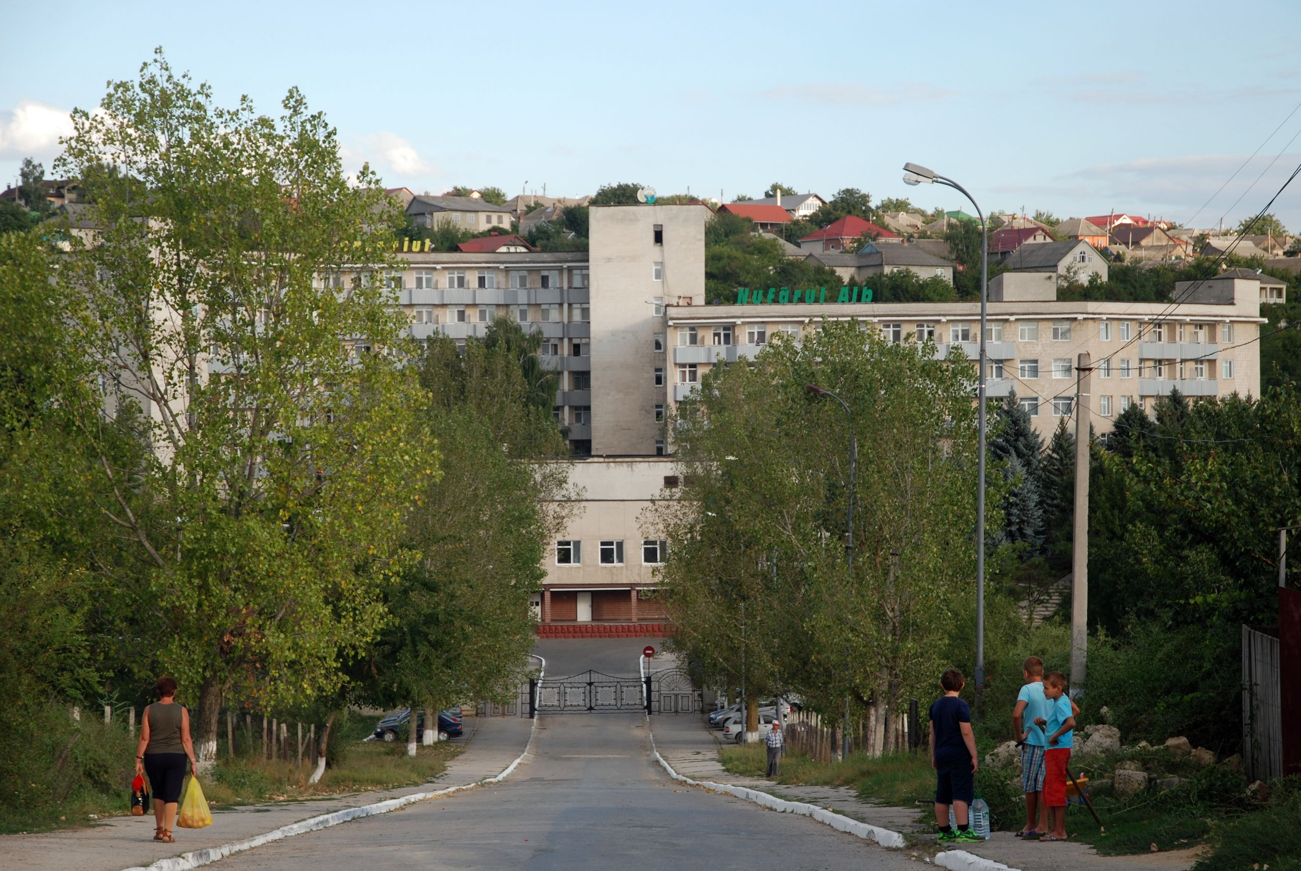 Cahul, sanatorium